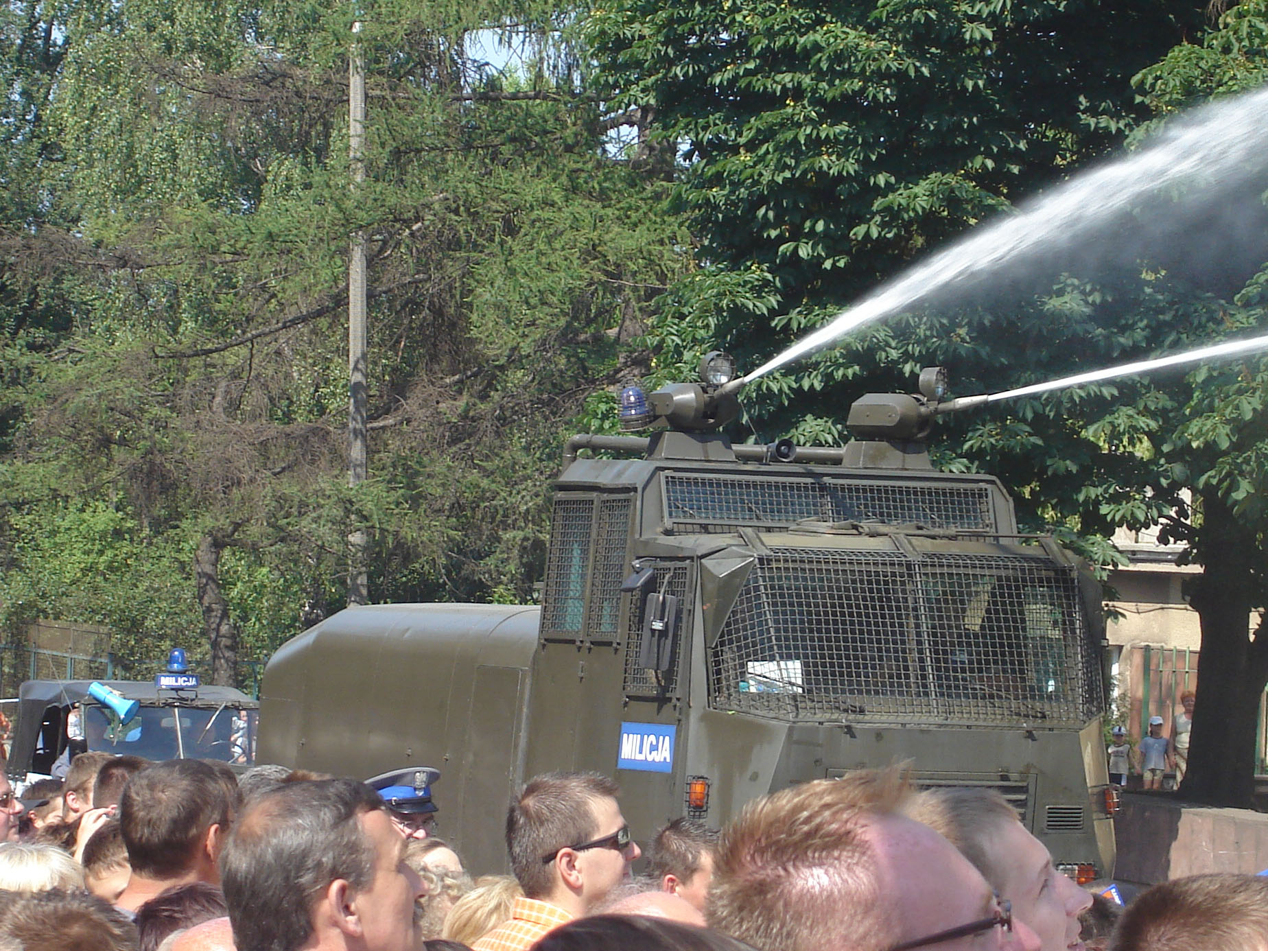 Staging of Radom political protests of 1976. A water cannon Jelcz Hydromil II of the Polish Police, with markings of Militia (Milicja Obywatelska), a former Polish Police of the communist period (the inscription form is not accurate, only for show purpose)